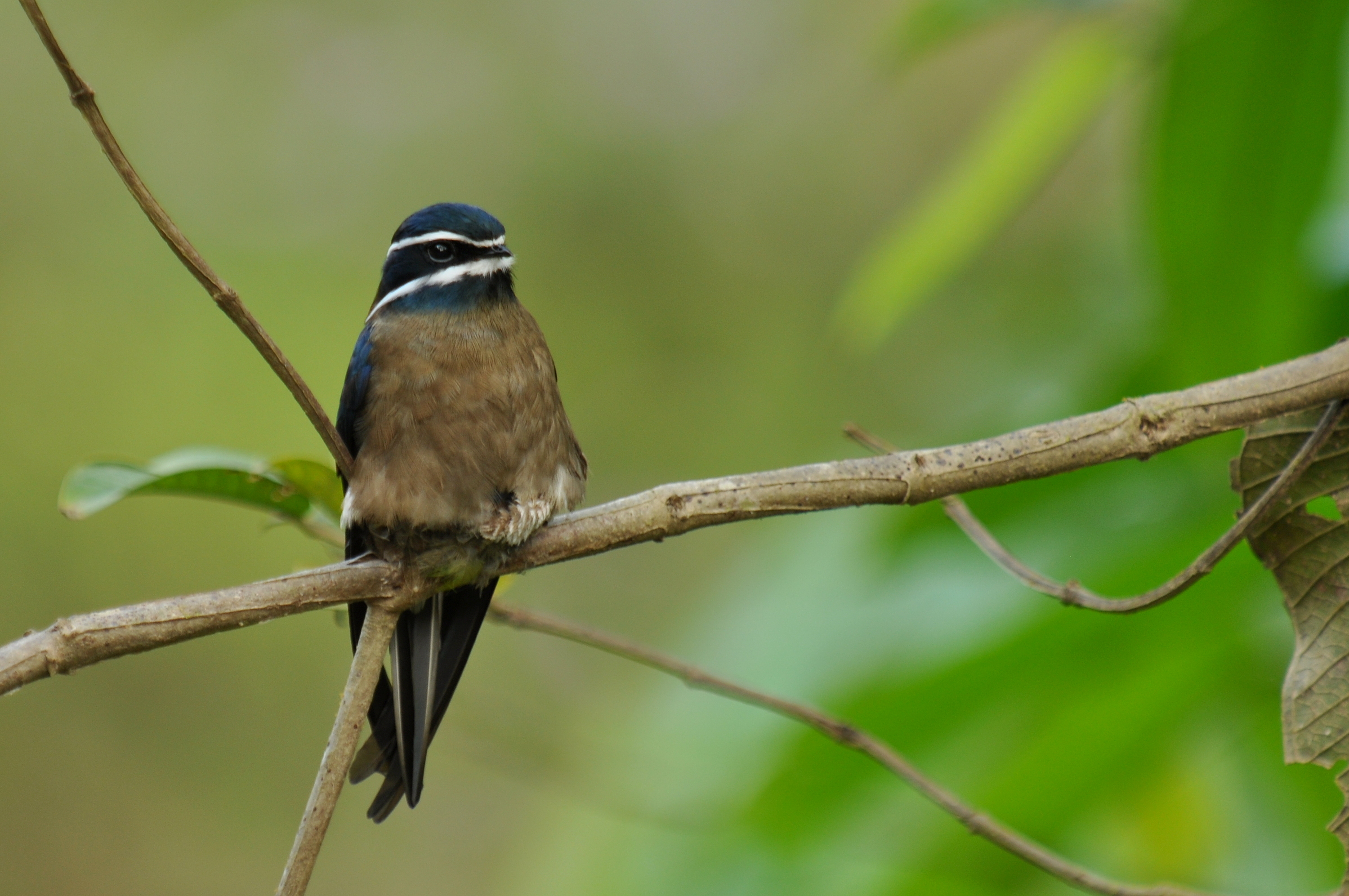 Whiskered Treeswift (Hemiprocne comata) in Danum valley, Sabah, Borneo